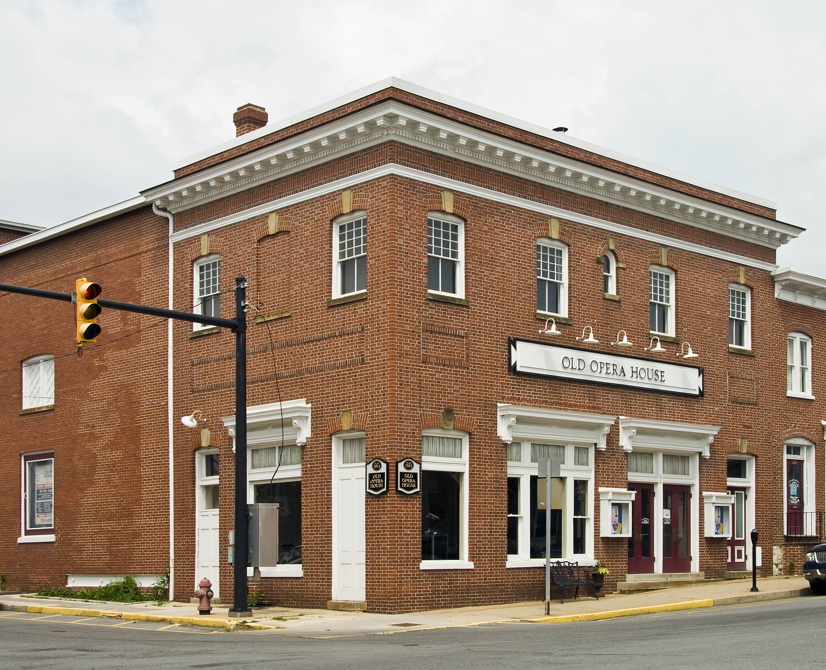 The Old Opera House (also known as the New Opera House) in Charles Town, West Virginia, USA